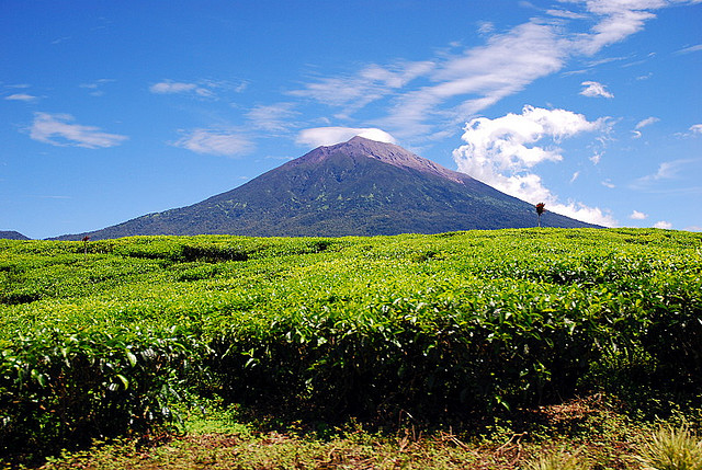 View of Mount Kerinci from Kayuaro